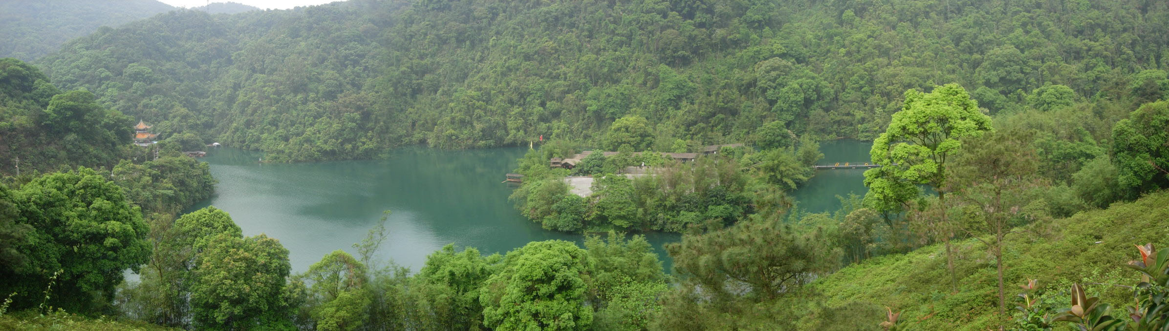 Panoramic Dinghu